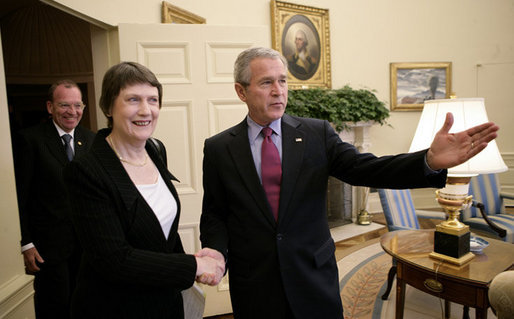 President George W. Bush welcomes Prime Minister Helen Clark of New Zealand to the Oval Office Wednesday, March 21, 2007. White House photo by Eric Draper. From the whitehouse website, [1]